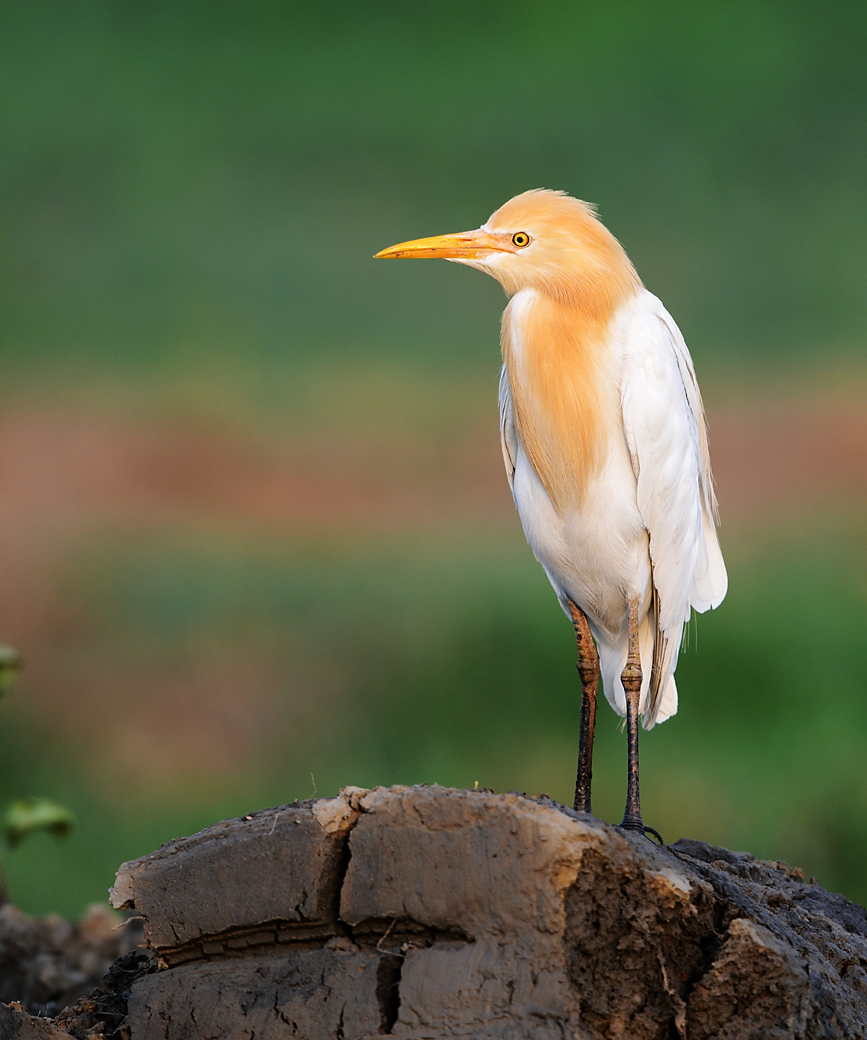 Bubulcus coromandus (Eastern Cattle Egret) is a very common bird all over the Indian Sub continent. They can be seen in and around ponds, grasslands, cultivation and often following cattle and tractors ploughing agricultural fields to catch the insets disturbed by them. During the breeding season, which is now, they develop a distinct golden wash around the neck and head. Photographed in Basai, near Gurgaon.